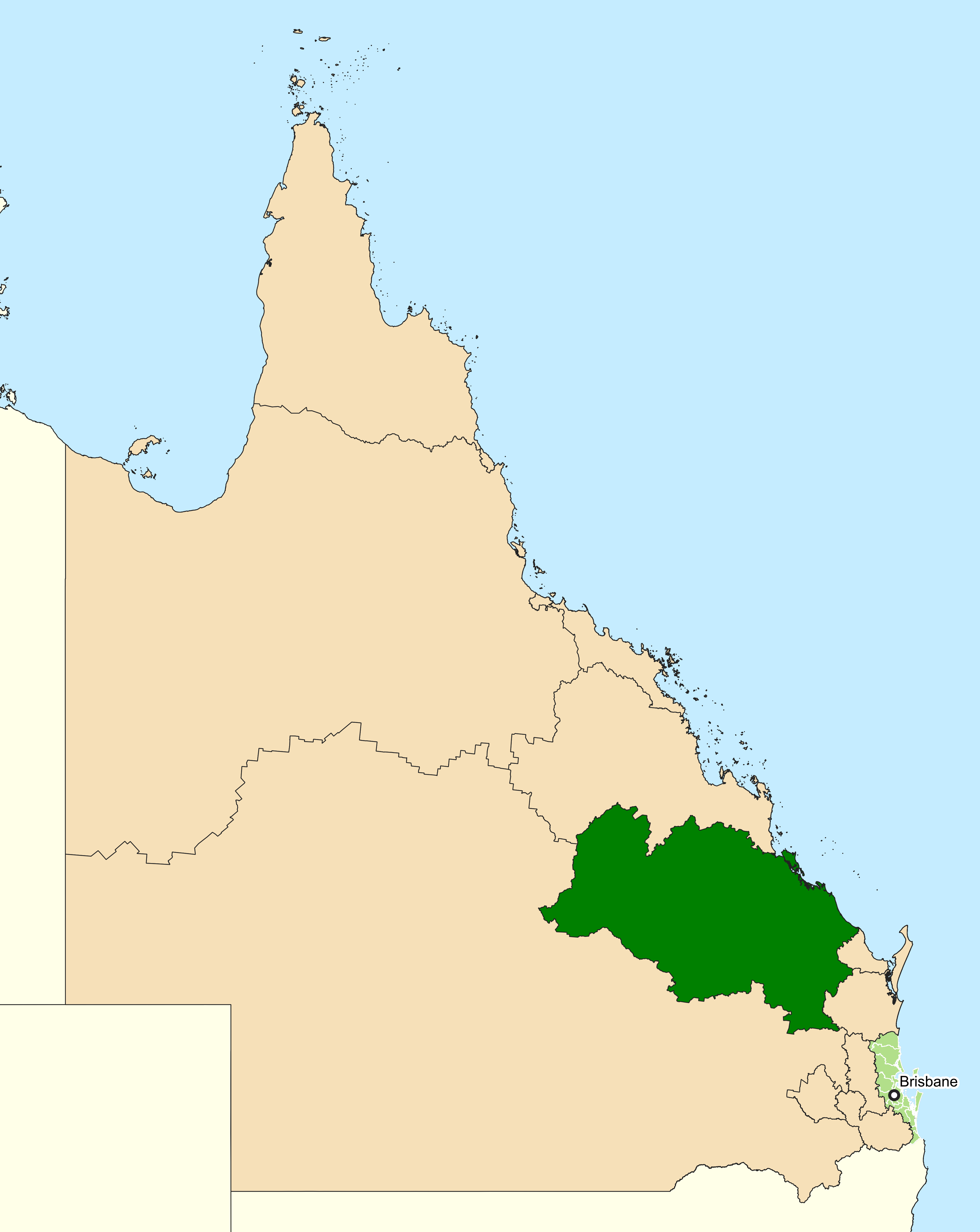 Location of the Australian federal electoral division of Flynn (dark green) in Queensland as of the 2019 Australian federal election. Incorporates or developed using Administrative Boundaries ©PSMA Australia Limited licensed by the Commonwealth of Australia under Creative Commons Attribution 4.0 International licence (CC BY 4.0).